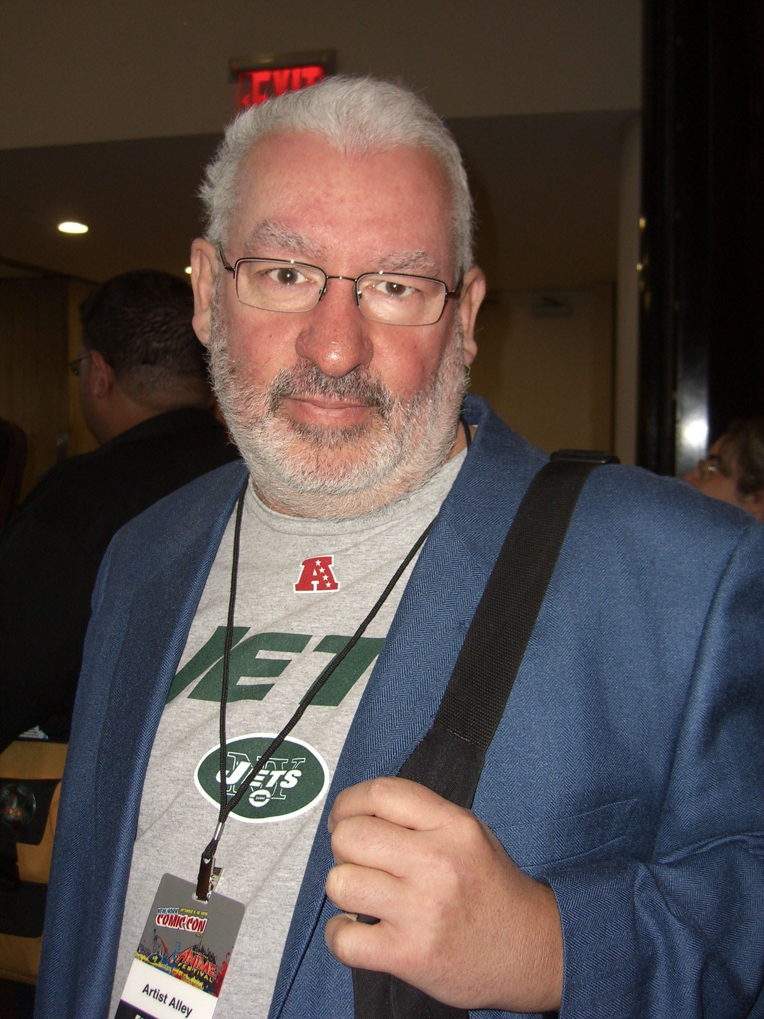 Comic book creator Tom DeFalco, at the New York Comic Convention in Manhattan, October 10, 2010. This photo was created by Luigi Novi. It is not in the public domain, and use of this file outside of the licensing terms is a copyright violation.